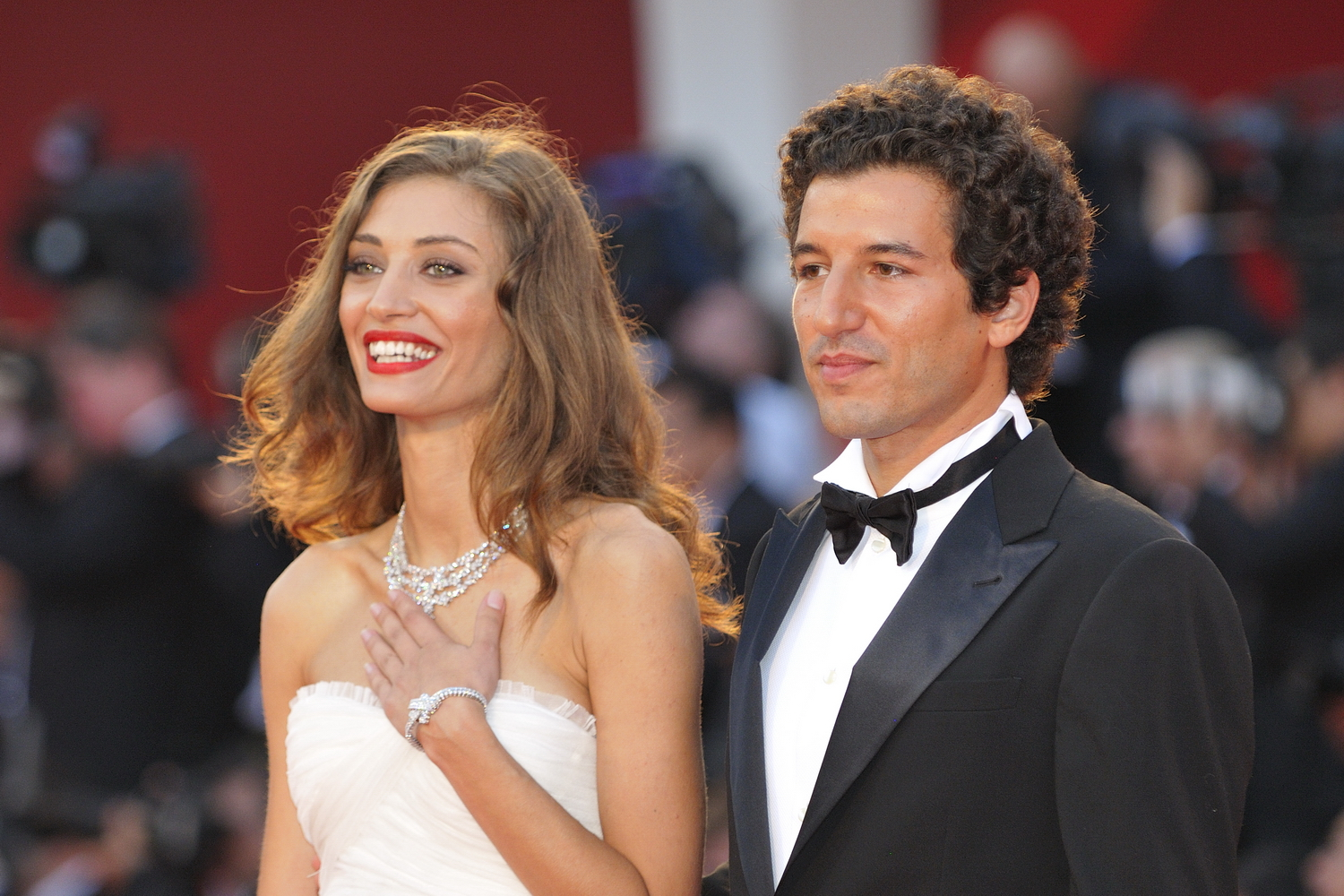 Francesco Scianna and Margareth Madè at the 2009 Venice Film Festival